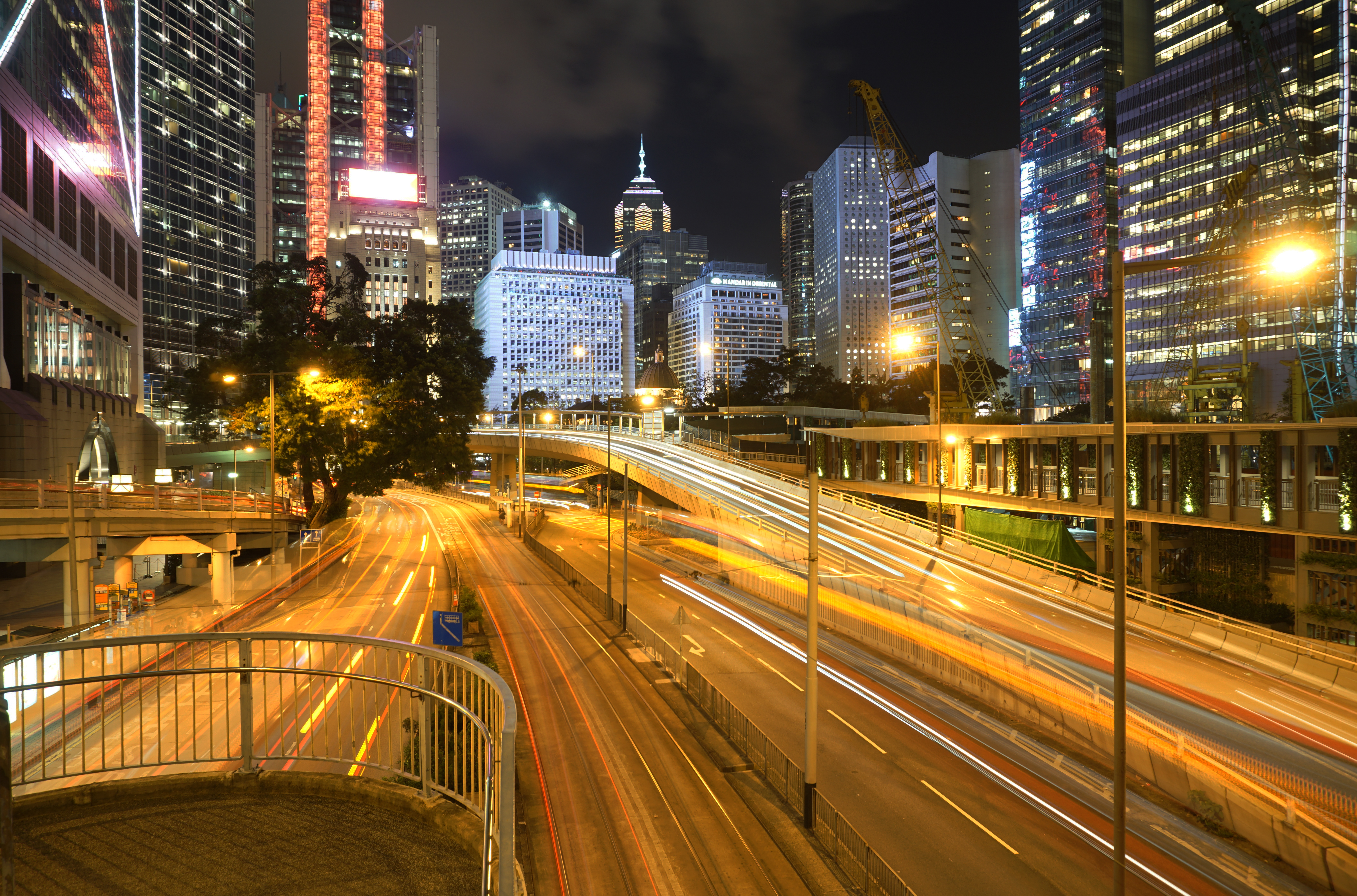 Queensway in Admiralty, Hong Kong.